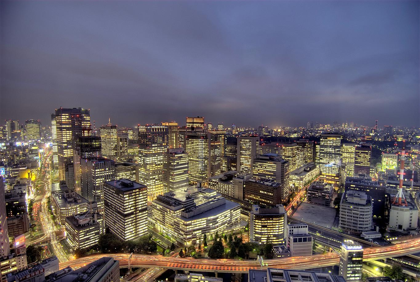 A view from the Tokyo Mandarin Oriental